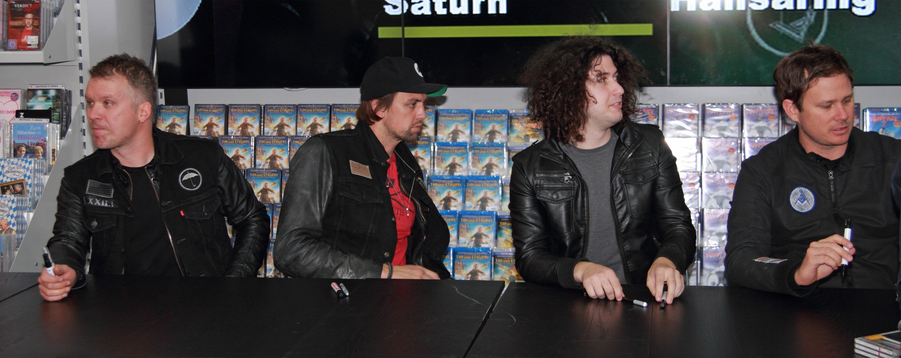 Angels & Airwaves: authographing at Saturn Cologne-Hansaring. From left to right: Matt Wachter, David Kennedy, Ilan Rubin, Tom DeLonge.